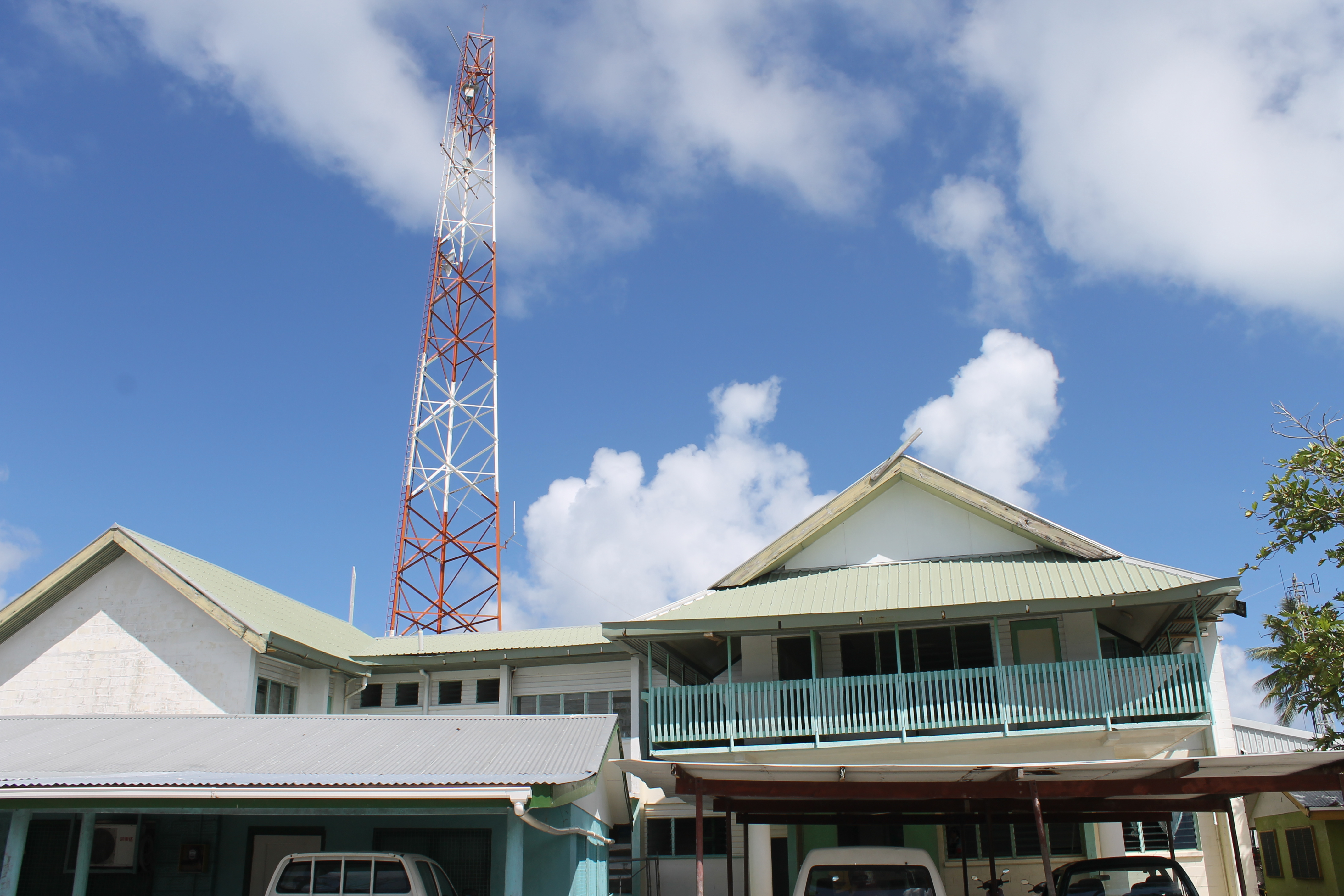 Tuvalu Telecom office in Funafuti